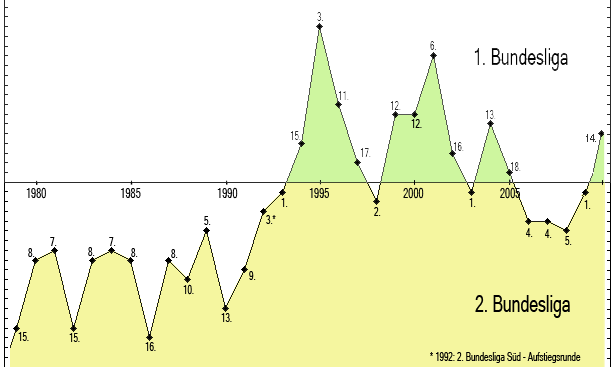 End results of soccer team SC Freiburg, Germany, since 1978 (First and Second Bundesliga)